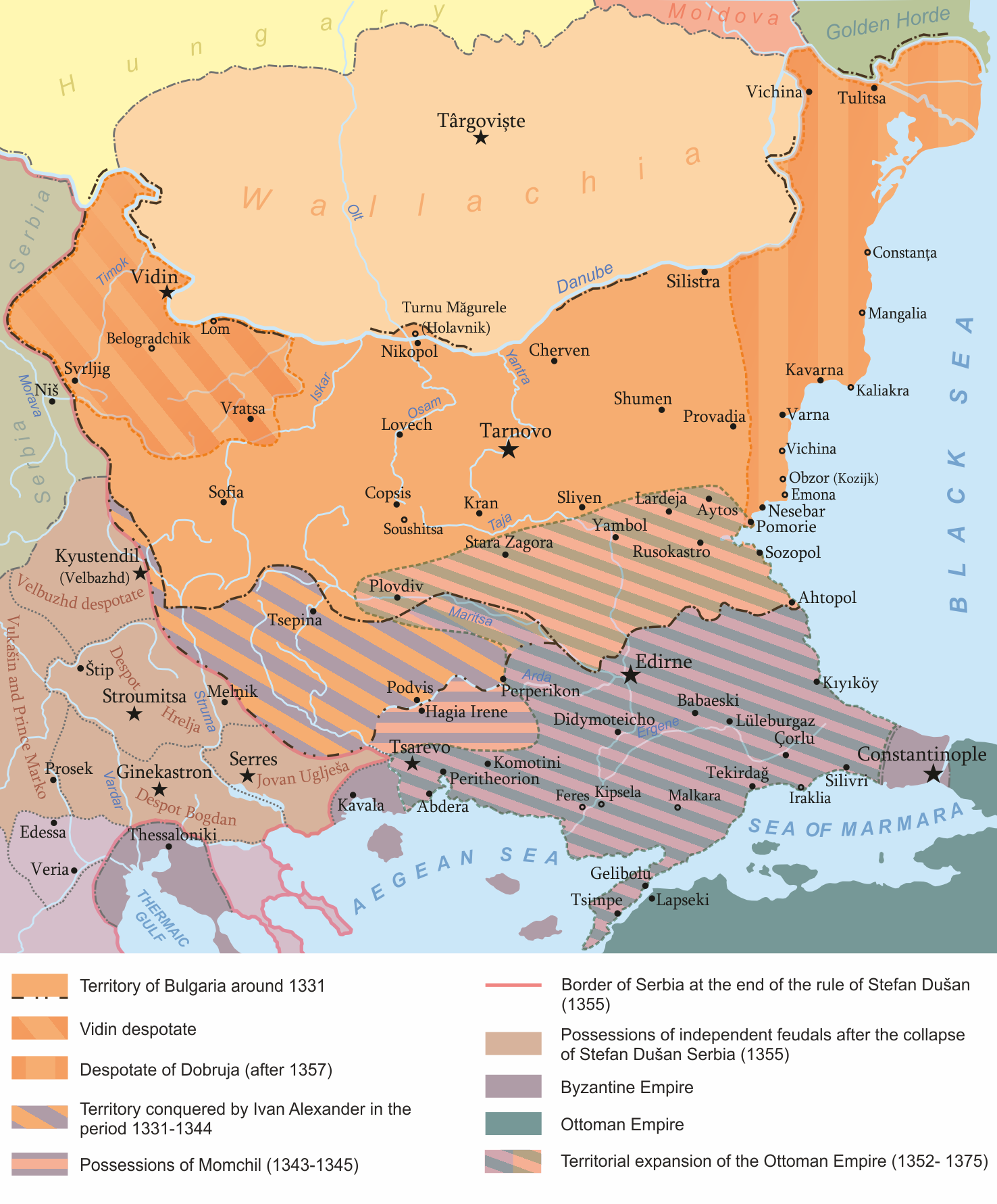 Second Bulgarian Empire under the rule of Ivan Alexander (1331-1371)